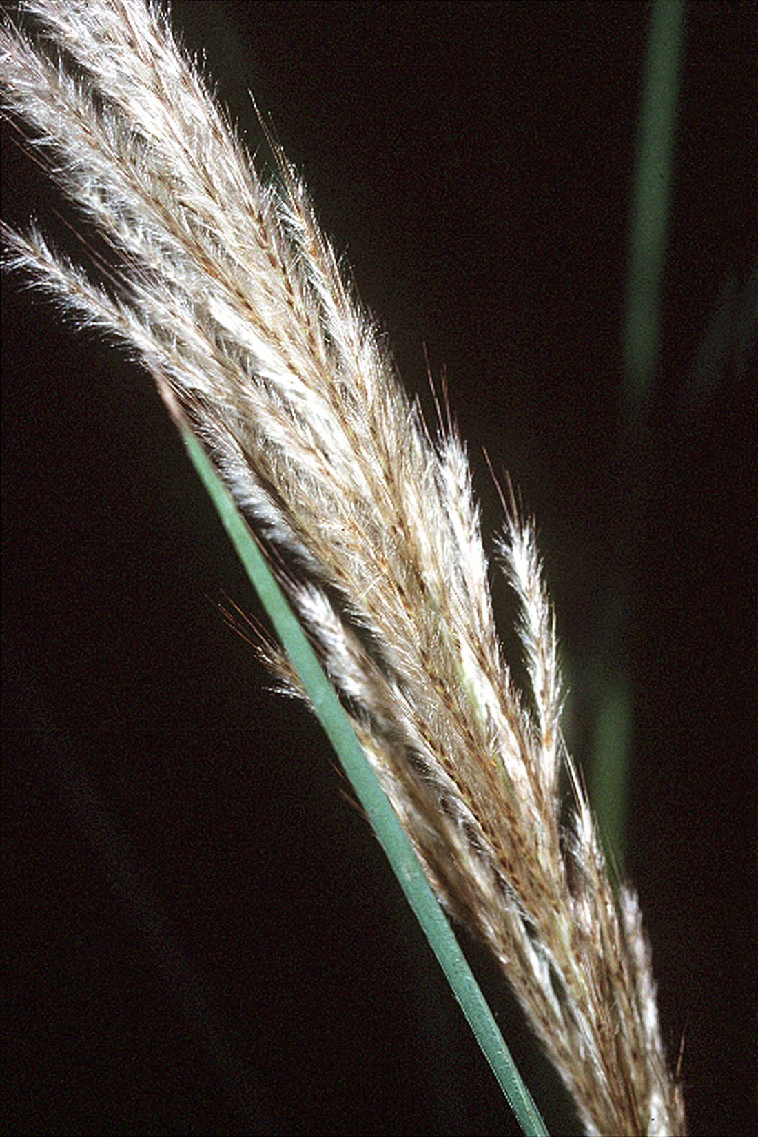 Saccharum giganteum (Walter) Pers. - sugarcane plumegrass